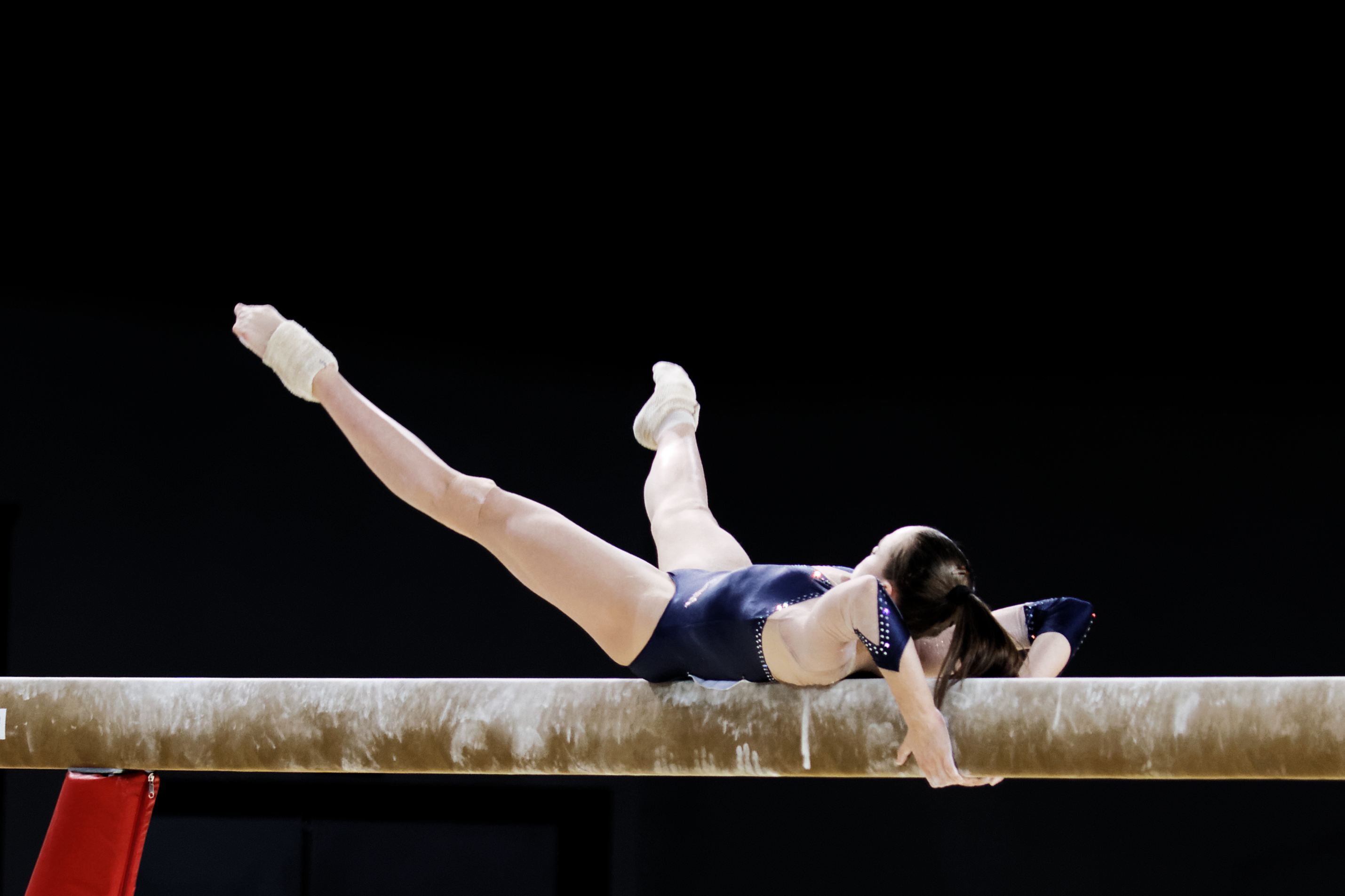 2015 European Artistic Gymnastics Championships. Bamance beam.